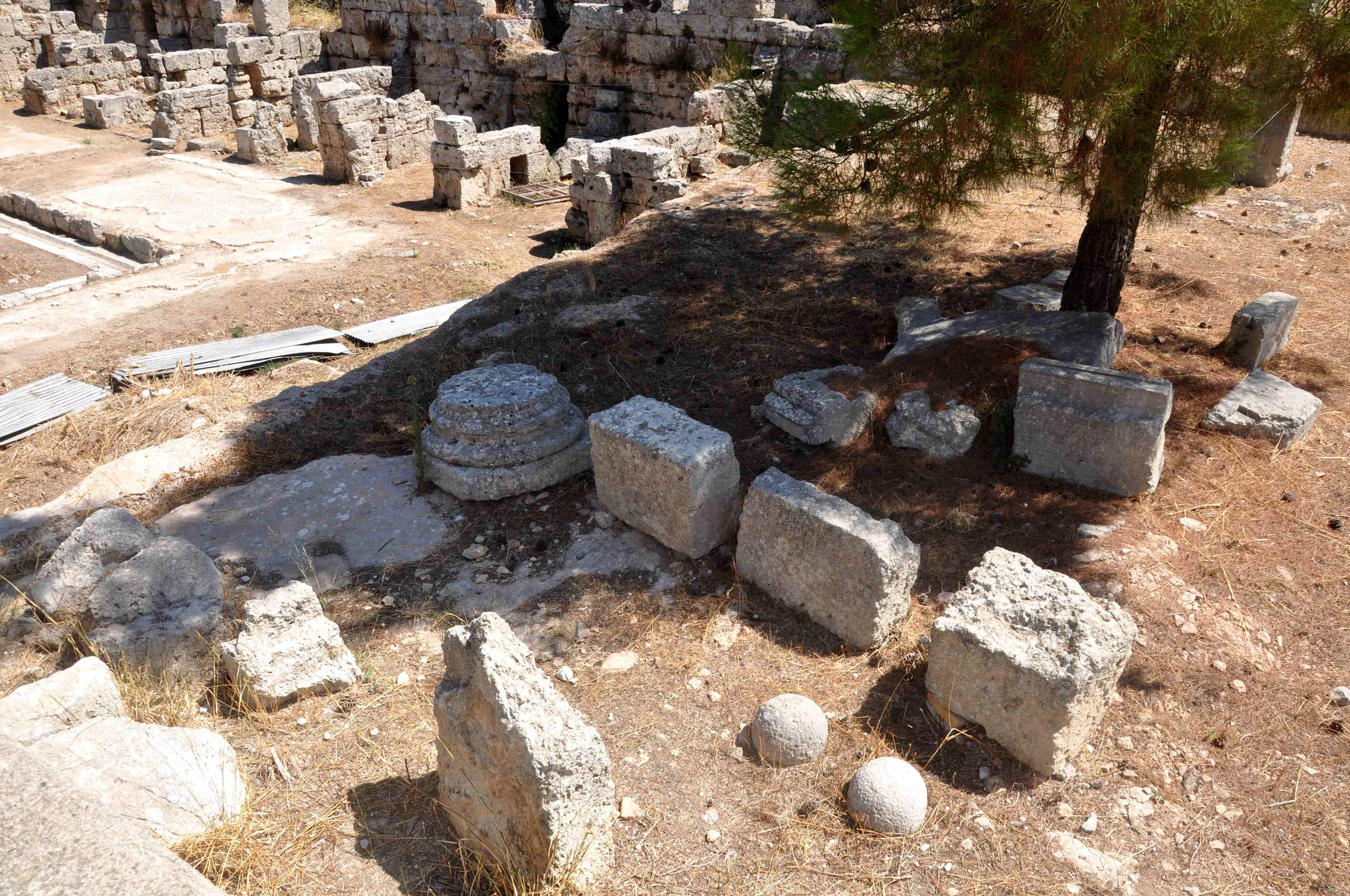 Corinth